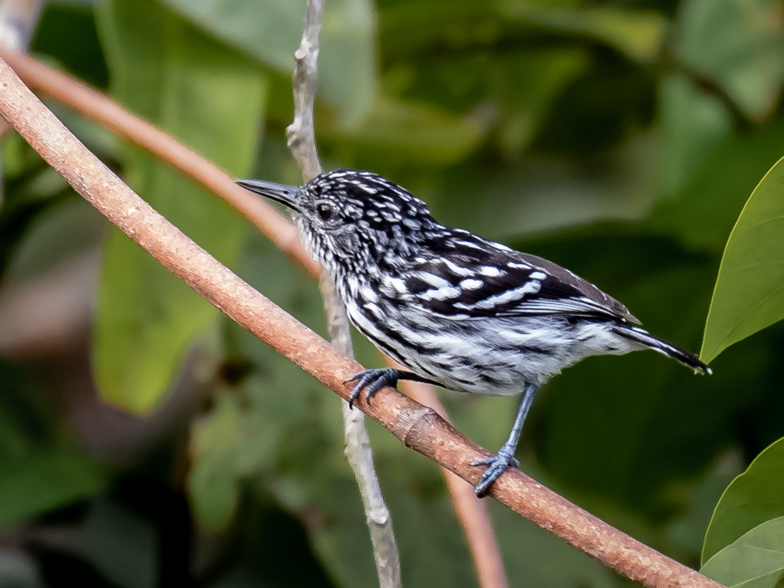 Cherrie's antwren (male) , Anavilhanas, Río Negro, Novo Airão, Amazonas, Brazil